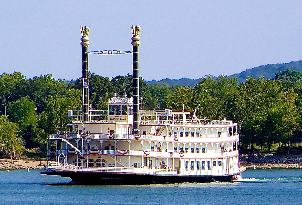 cropped version for article use